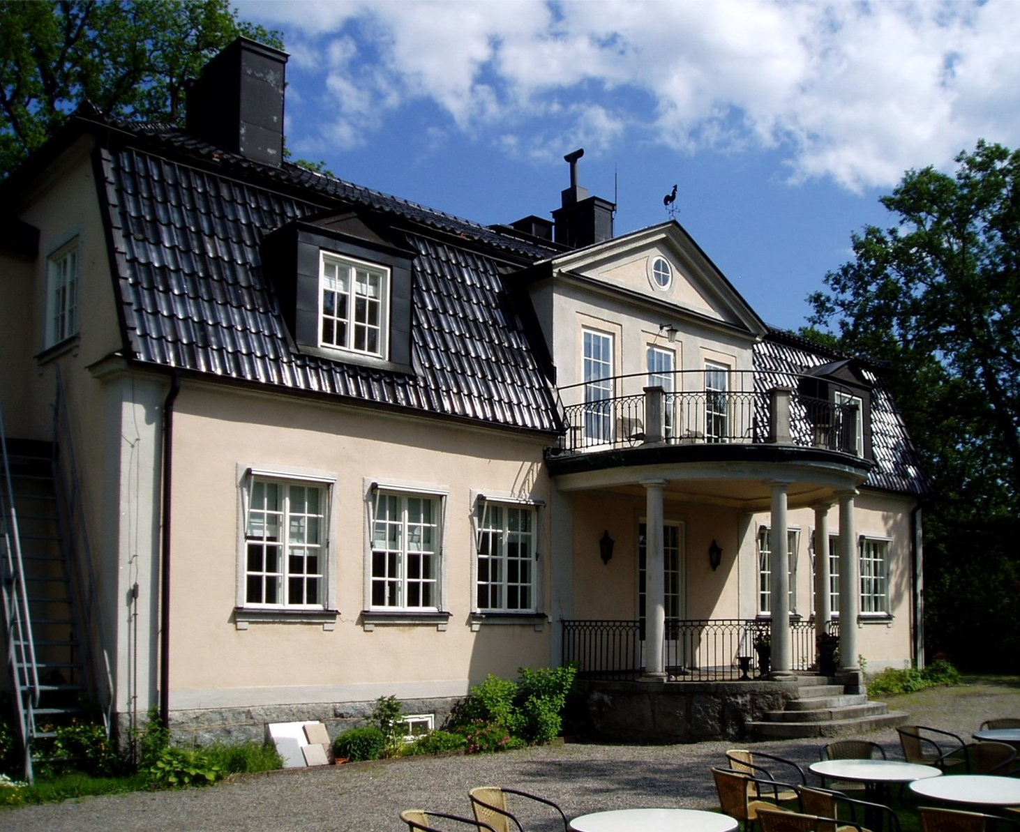 Mansion Balingsholm, Huddinge Municipality, Sweden